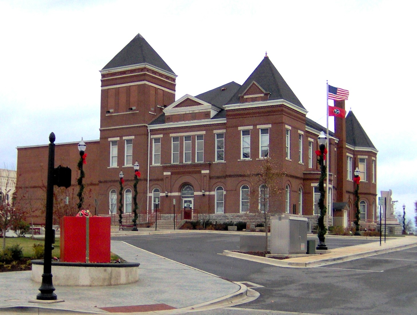 The Warren County Courthouse in McMinnville, Tennessee, in the southeastern United States. The courthouse was built in 1897